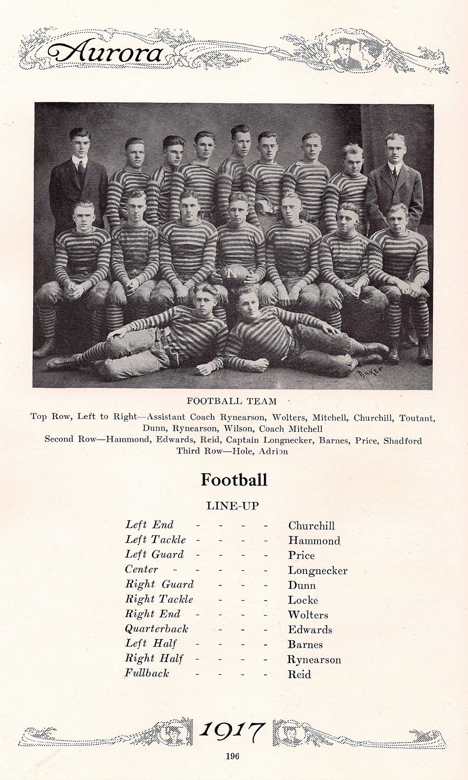 Photo of the 1916 Michigan State Normal College (now Eastern Michigan University) football team. From